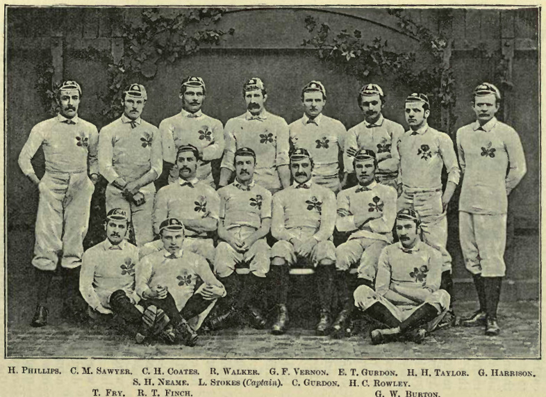 A picture of the English rugby union side that faced Scotland in February 1880